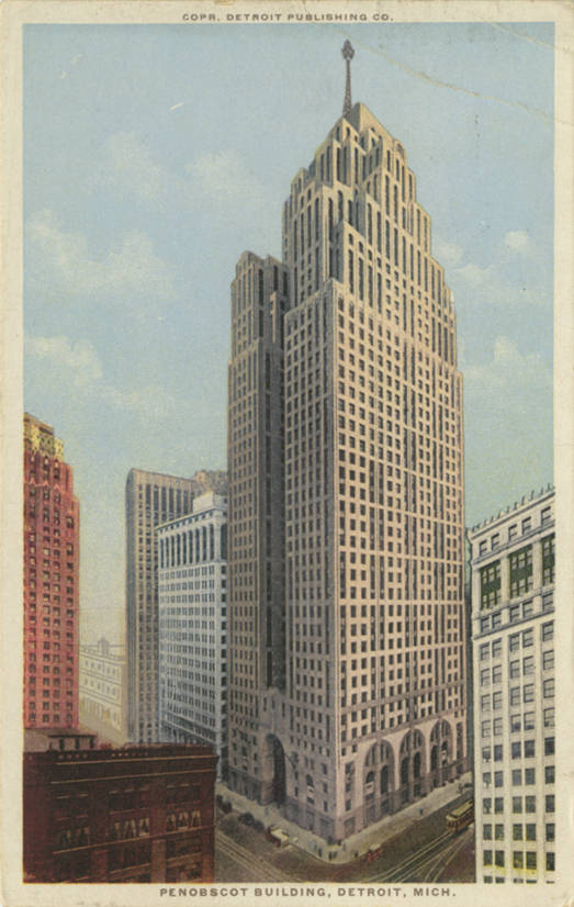 Penobscot Building